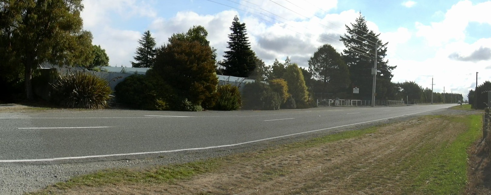 Taken: 9 April 2005 Who took it: me What is it of: swannanoa school/pool Article it will be in: Swannanoa